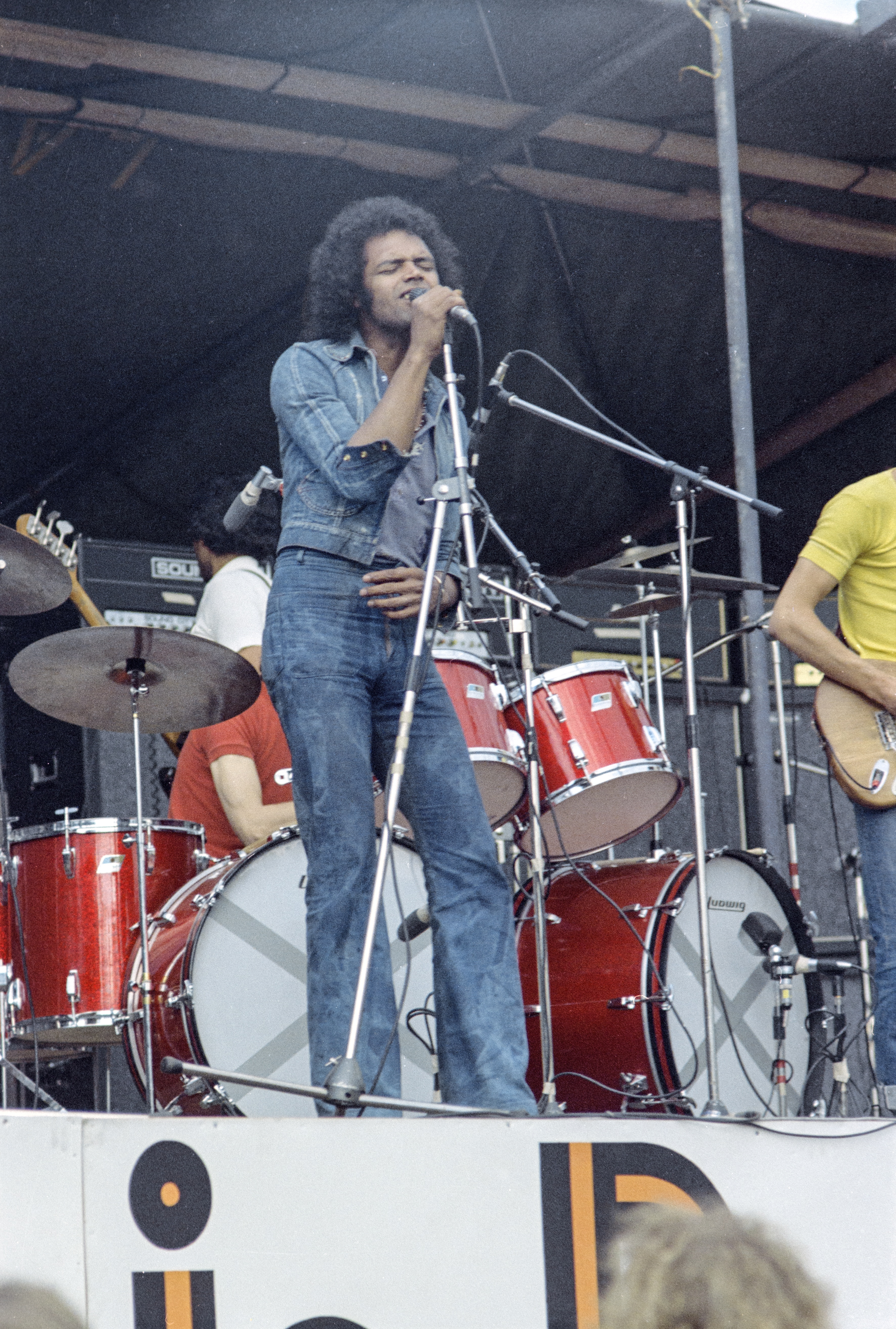 Photograph of the soloist of The Jeff Beck Group at Ruisrock music festival in Finland.